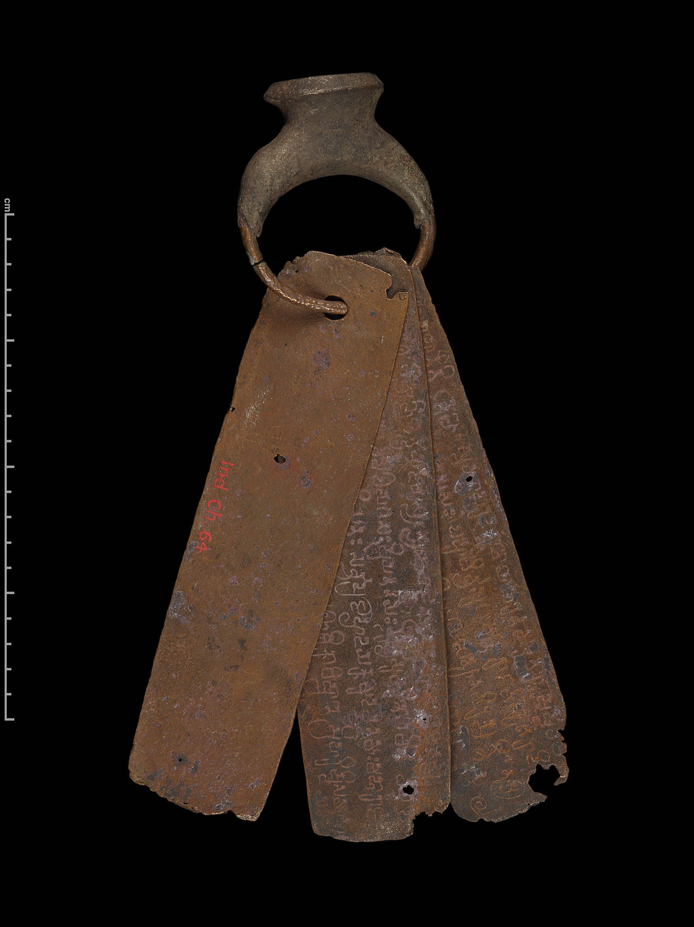 Charter registering a grant of land to a Jain teacher and for the provision of festivals at the temple of the Arhat at Palashika.